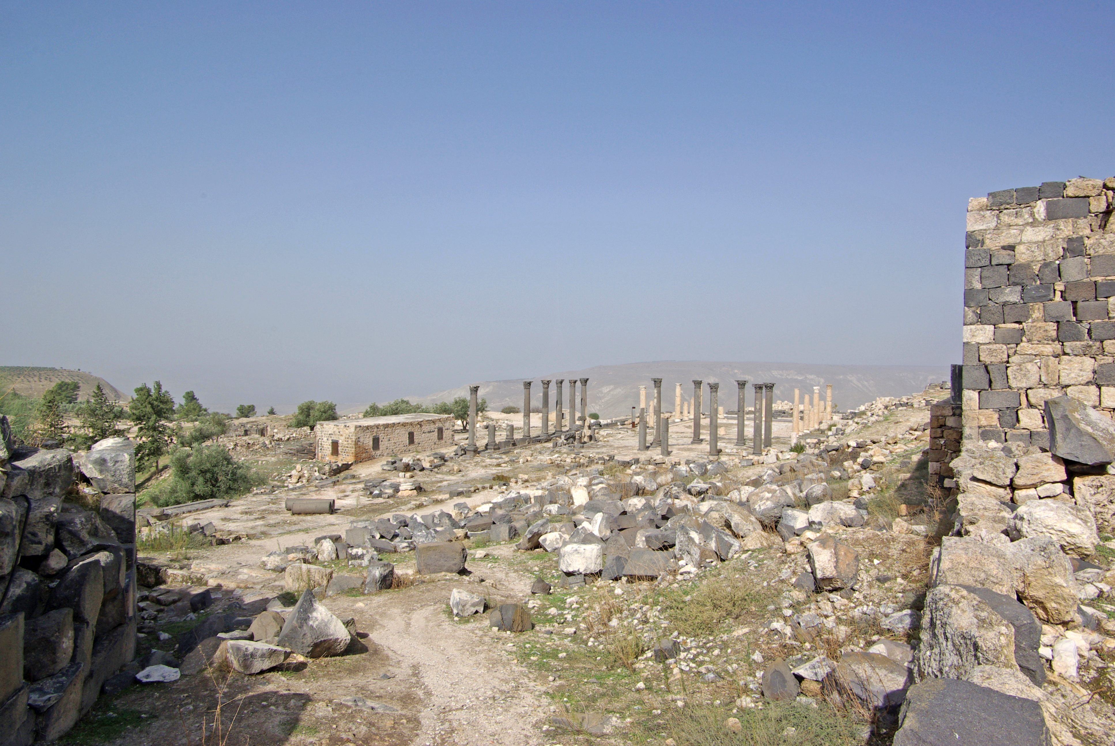 Umm Qais/Gadara, ruins of the bzyantinic church